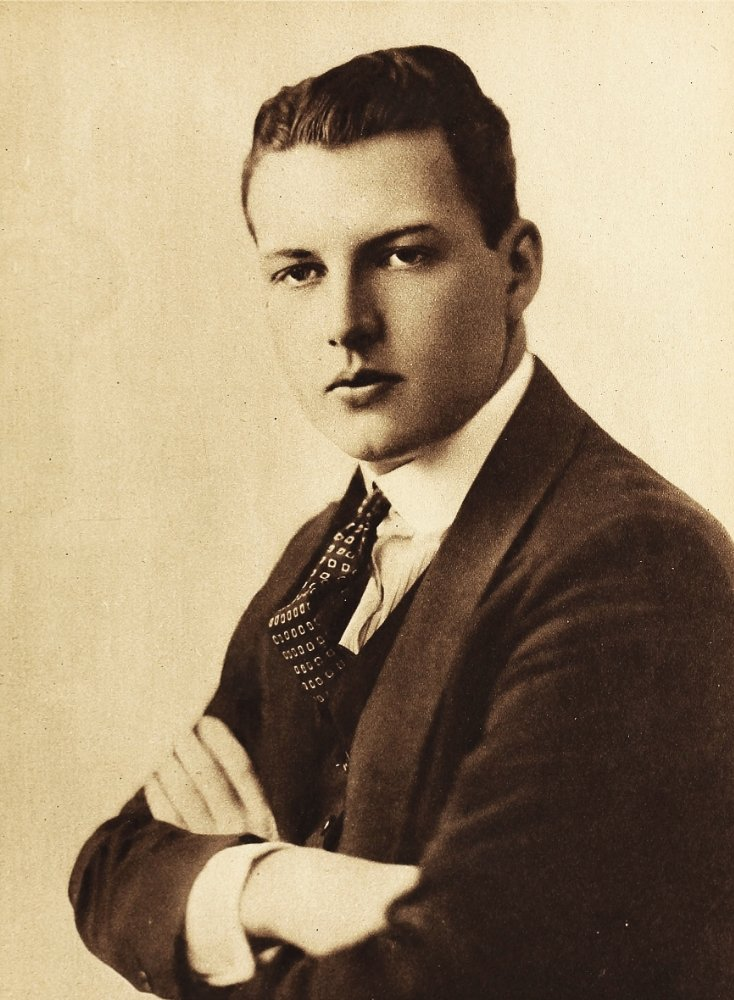 American silent film actor Vincent Coleman on page 21 of the April / May 1920 Motion Picture Magazine.